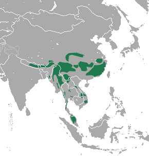 Clouded Leopard (Neofelis nebulosa) range